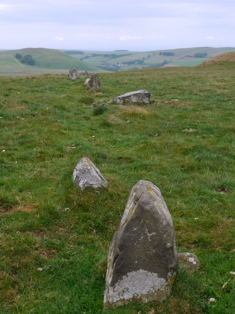 The Shearers This line of stones is locally thought to be an alignment of standing stones with the name referring to a traditional tale of their origin as sheep shearers punished for working on the sabbath The more prosaic archaeologists of RCAHMS considered that they were more likely to be the larger remaining stones of an ancient field dyke, probably erected during the occupation of the nearby Iron Age settelement at Hownam Rings The archaeology view is supported by the close alignment of the stone row with the prehistoric ridge and furrow system (cord rig) visible (on aerial photos) on both its north and south sides.